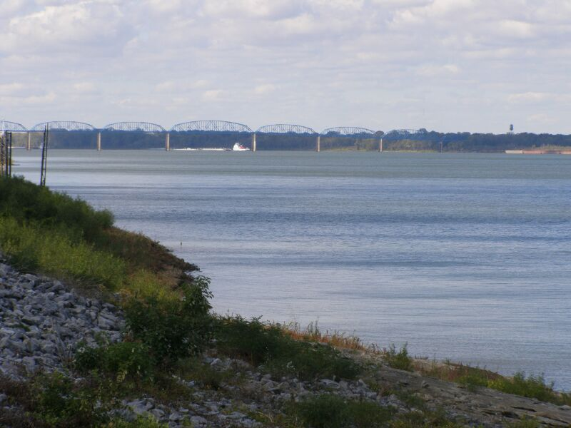 Irvin S. Cobb Bridge, Paducah, Kentucky